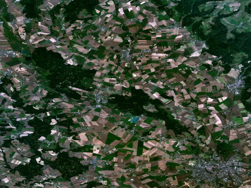 map of Litovelské Pomoraví Protected Landscape Area, the Czech Republic